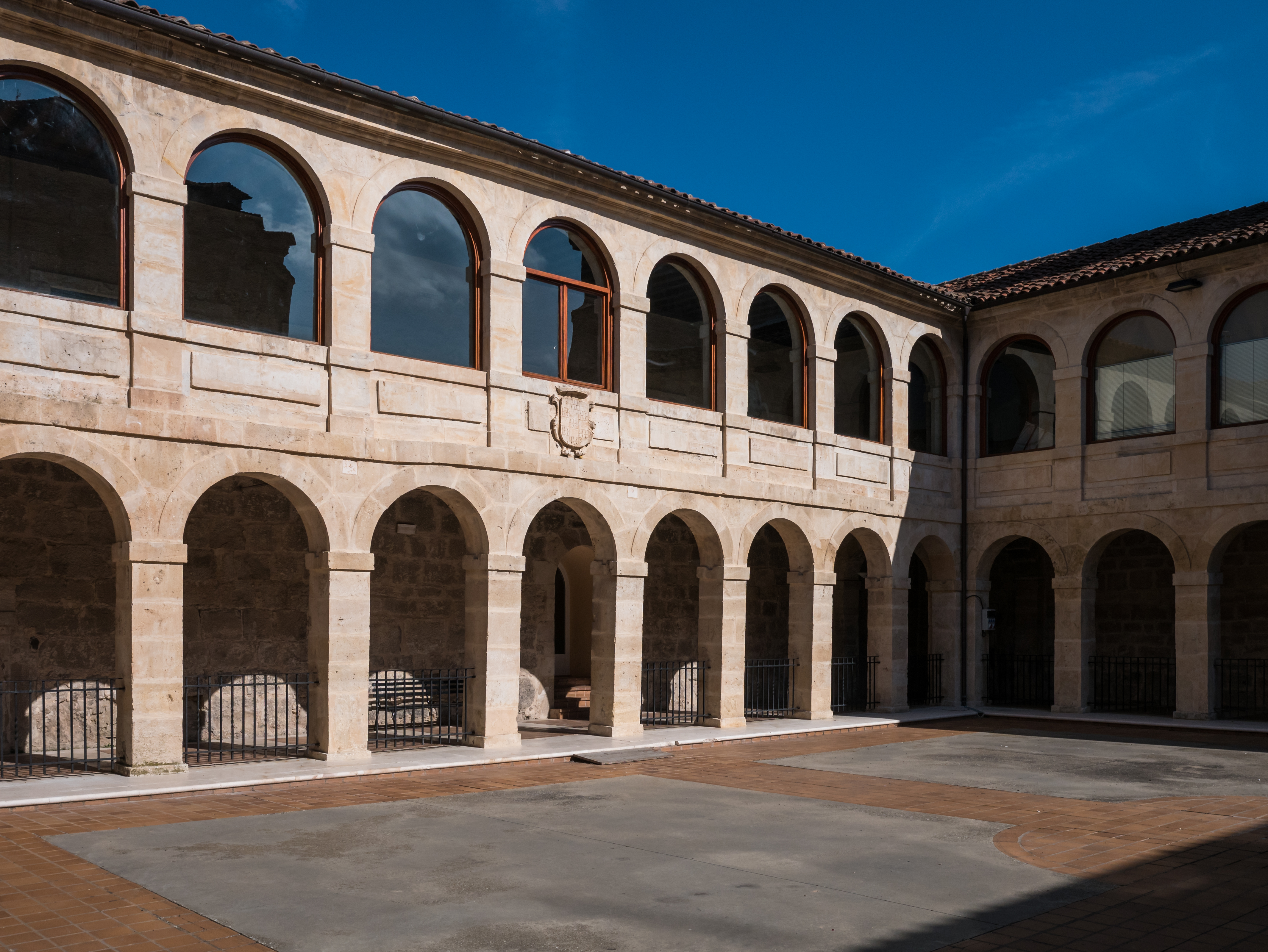 Hospital of Nuestra Señora del Rosario, patio. Briviesca, Burgos, Castilla-León, Spain